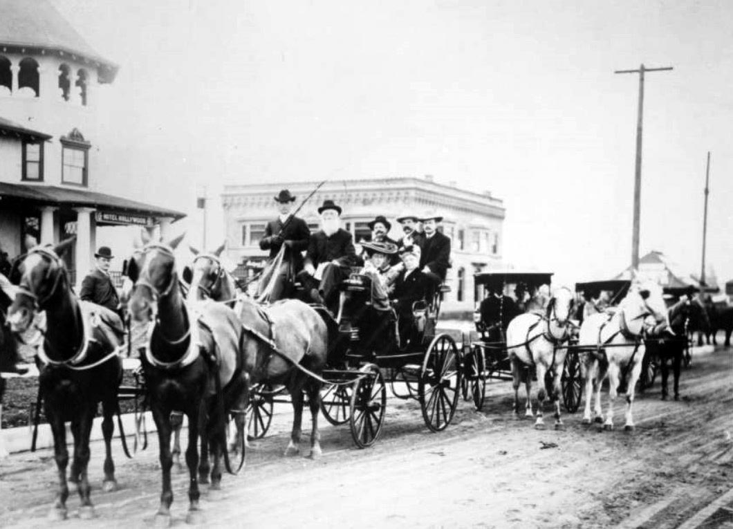 HJ Whitley is the man standing on the left wearing a bowler hat. The building at the left is the Hollywood Hotel on the corner of Highland Ave. and Hollywood Blvd.